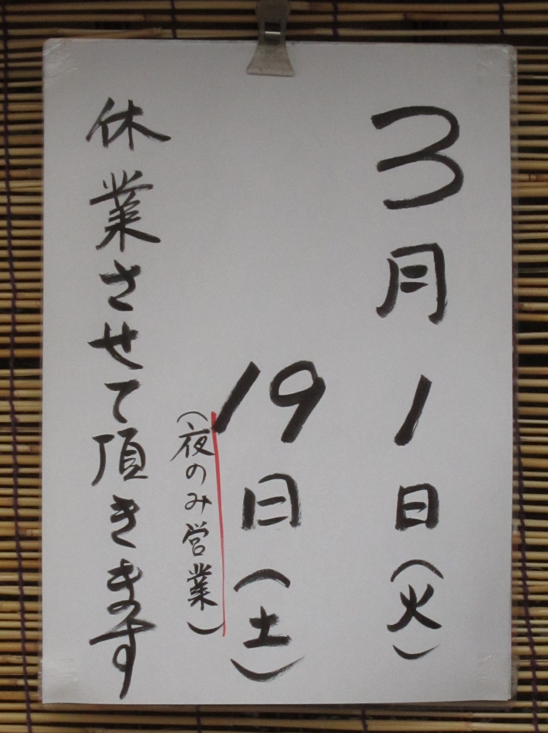 Store sign showing usage of 休業させて頂きます (“[You] kindly allow [us] to be closed”/“[We] receive the favor of [your] allowing [us] to be closed”, as example of manual keigo.